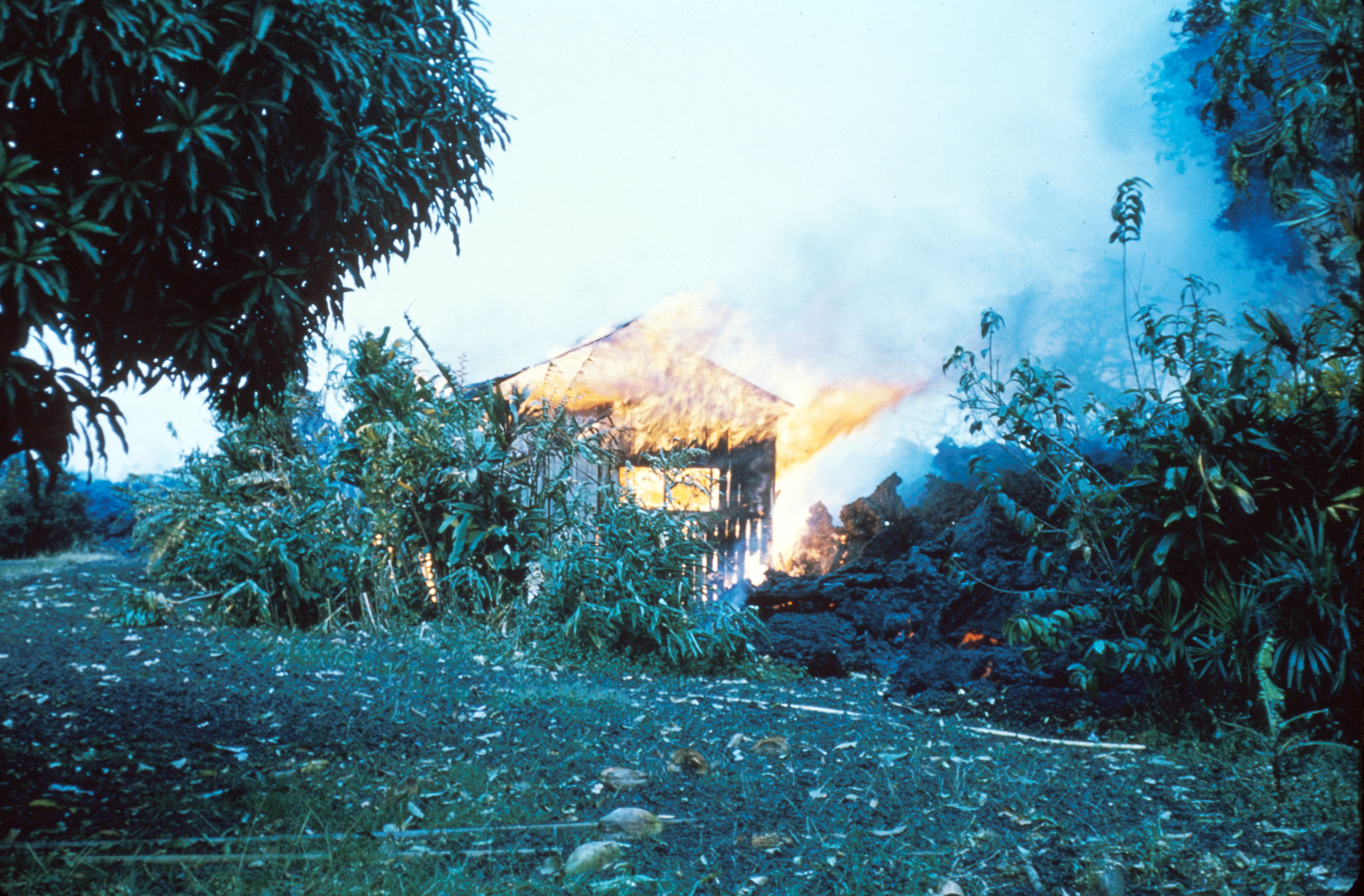 House in Kapoho destroyed by lava, Hawaii, United States